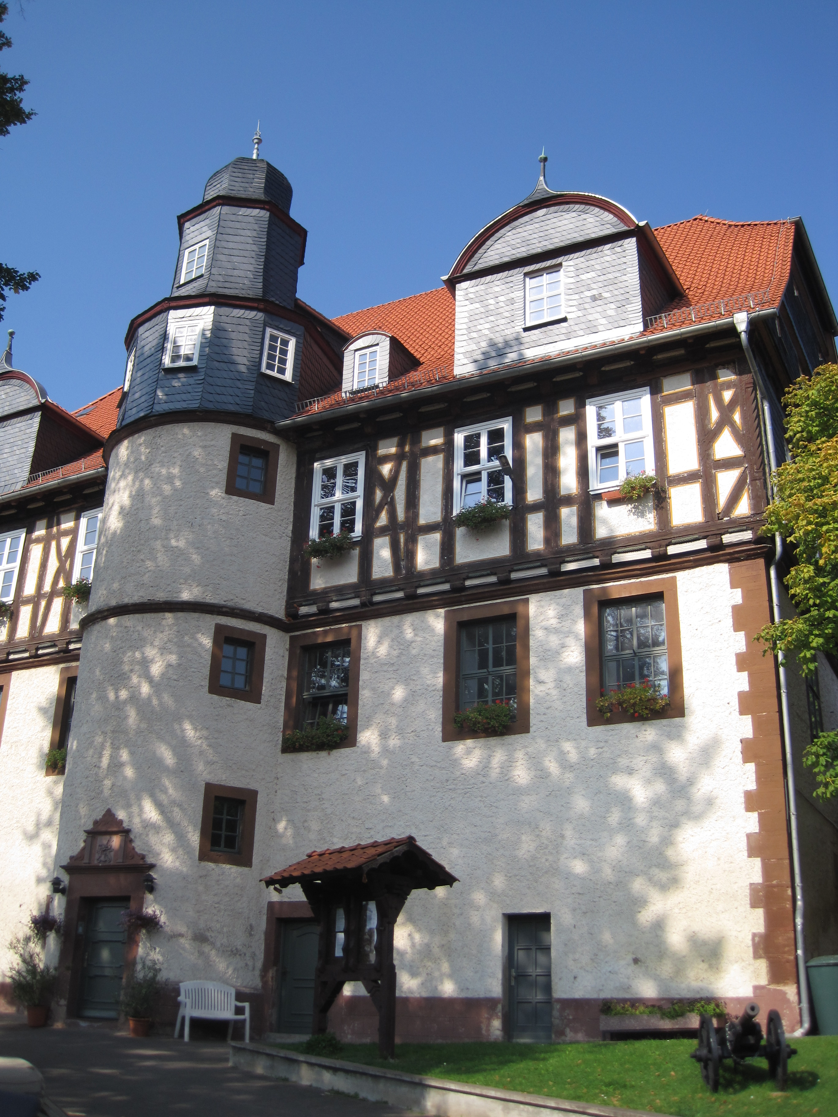 Renaissance manor Martinfeld in Thuringia, built 1611